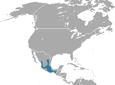 Veracruz Shrew (Sorex veraecrucis) range